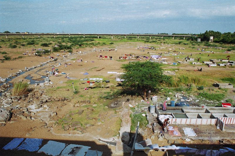 The river KoLLiDam during summer at Tiruchirapalli. Author: Amar Photograph: December 2005, scanned and GIMPed